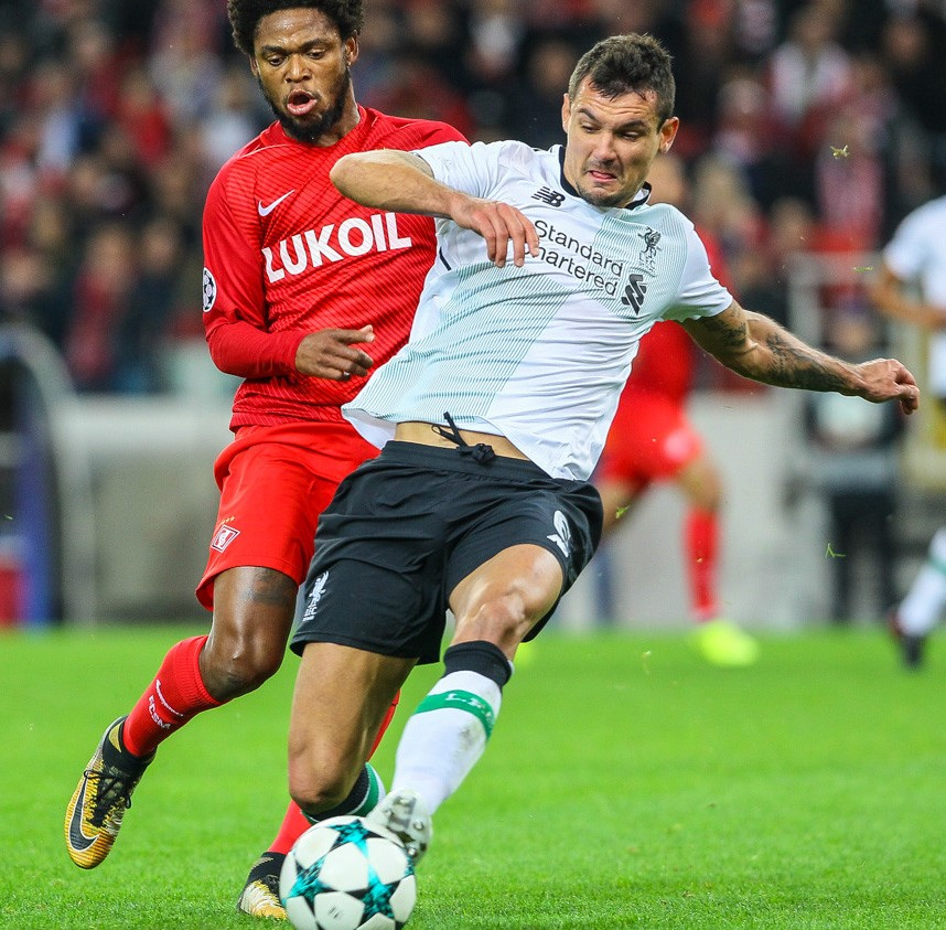 Luiz Adriano de Souza da Silva, Dejan Lovren